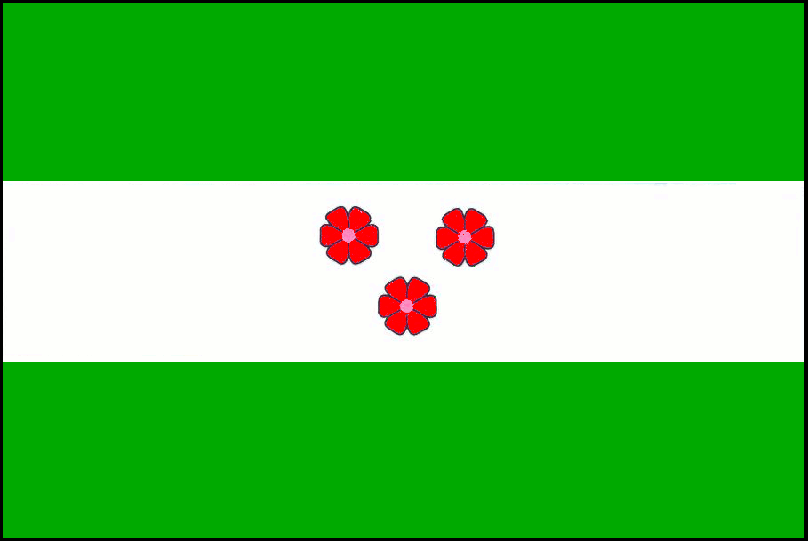 Municipal flag of Bílichov village, Kladno District, Czech Republic.